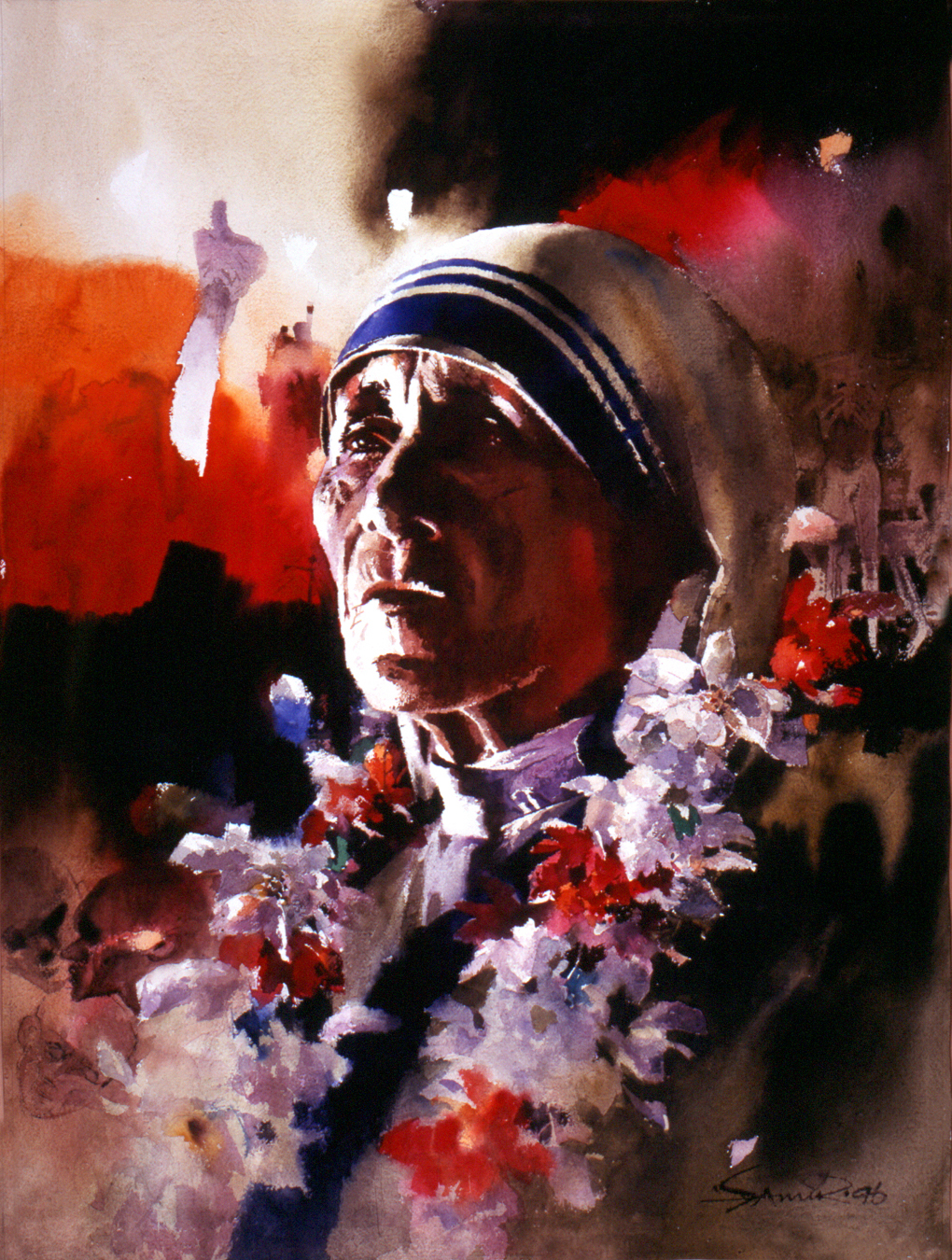 samir mondal watercolor painting, mother teresa